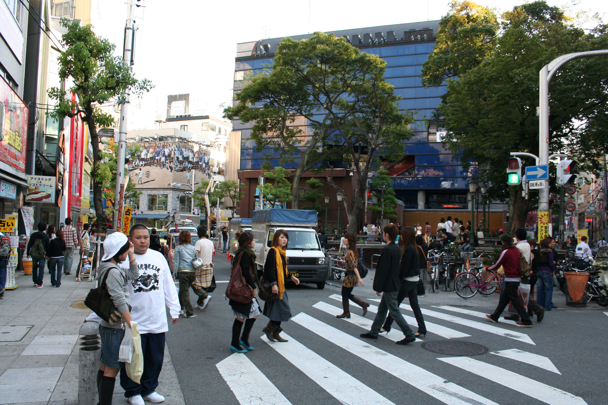 A busy day in Amerikamura.